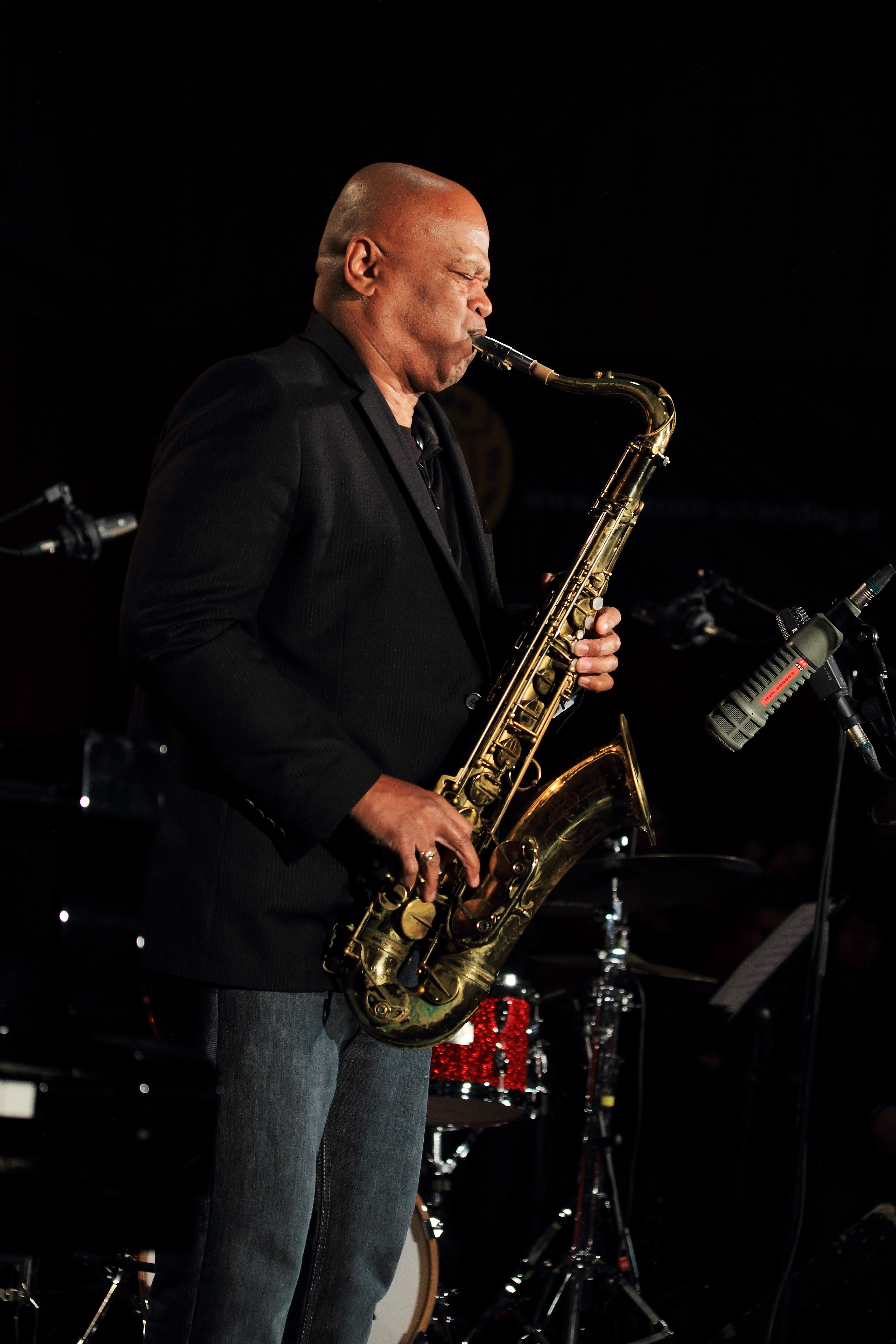 Azar Lawrence "Tribute to McCoy Tyner" at INNtöne Jazzfestival, Austria 2016.